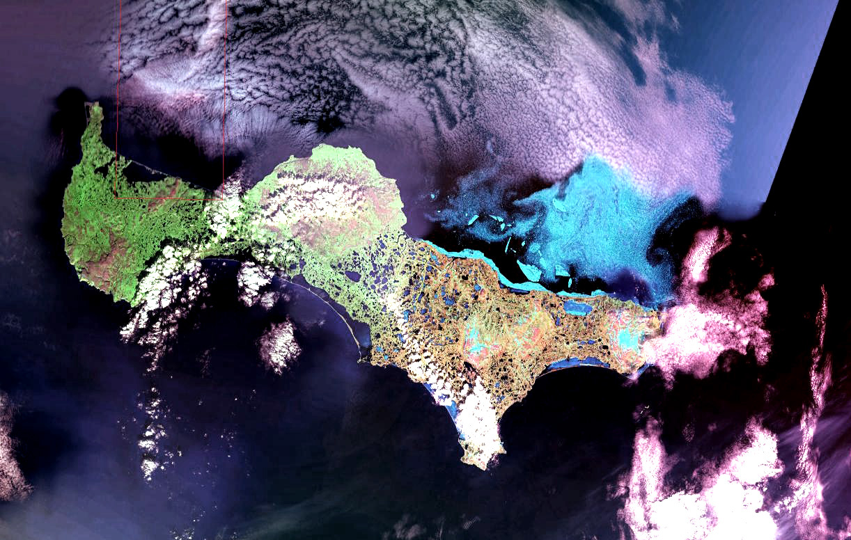 St. Lawrence Island in the Bering Sea. NASA Landsat satellite image.